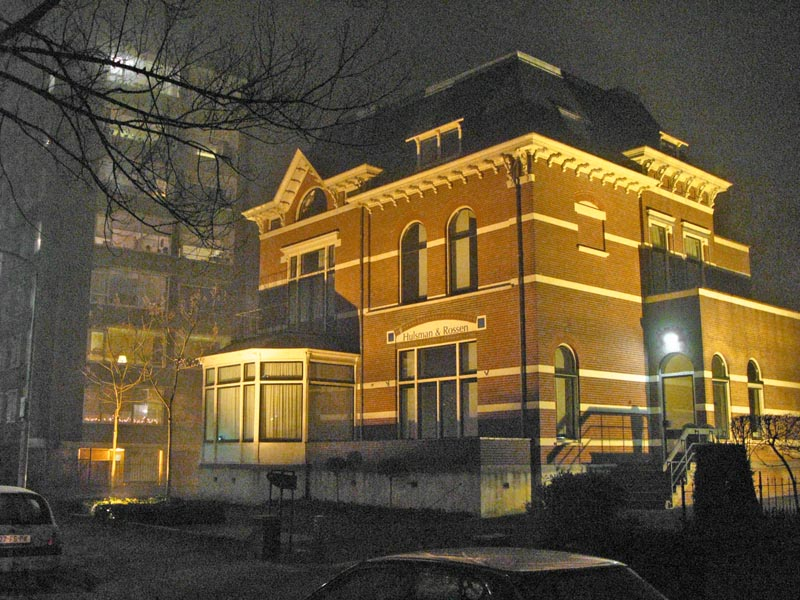 Office building illuminated by high pressure sodium (HPS) lamps shining upward, of which much light goes into the sky and neighboring apartment blocks and causes light pollution. Location: Nijmegen, the Netherlands.